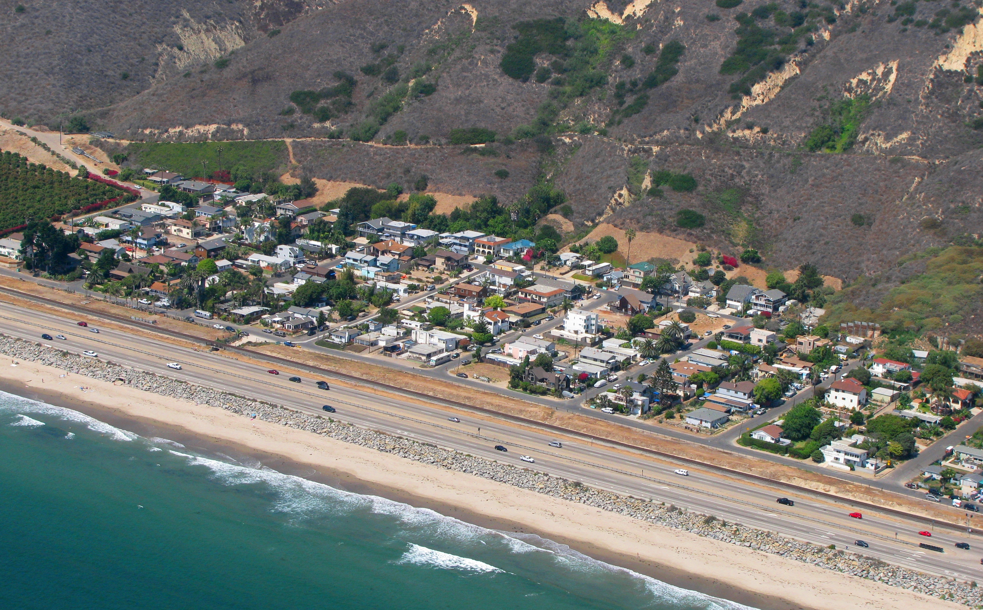 La Conchita and U.S. Route 101, California. From a Cessna; photo by self, 7/31/09; GFDL or equivalent